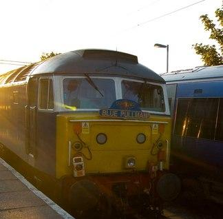 47712 Artemis is a class 47 diesel Loco that with its twin TQ9385 Dionysos pulls the TQ3380 Blue Pullman luxury dining train. These photos were taken on the 150th anniversary run to commemorate the Railway from Fenchurch St reaching Southend-on-sea. One of C2C’s more prosaic 357 Electrostars accompanies the older vehicle.